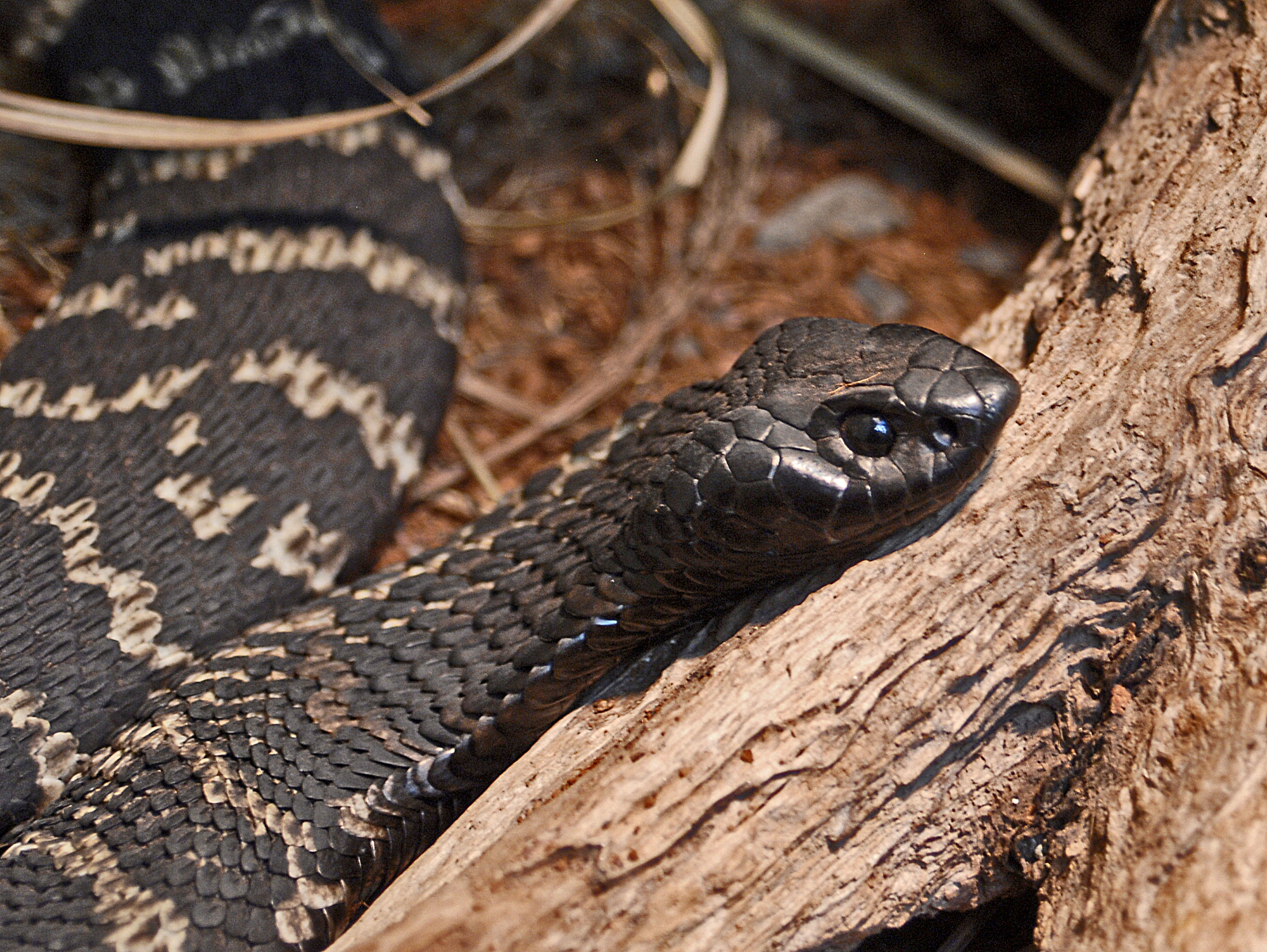 Hemachatus haemachatus. Detail of head